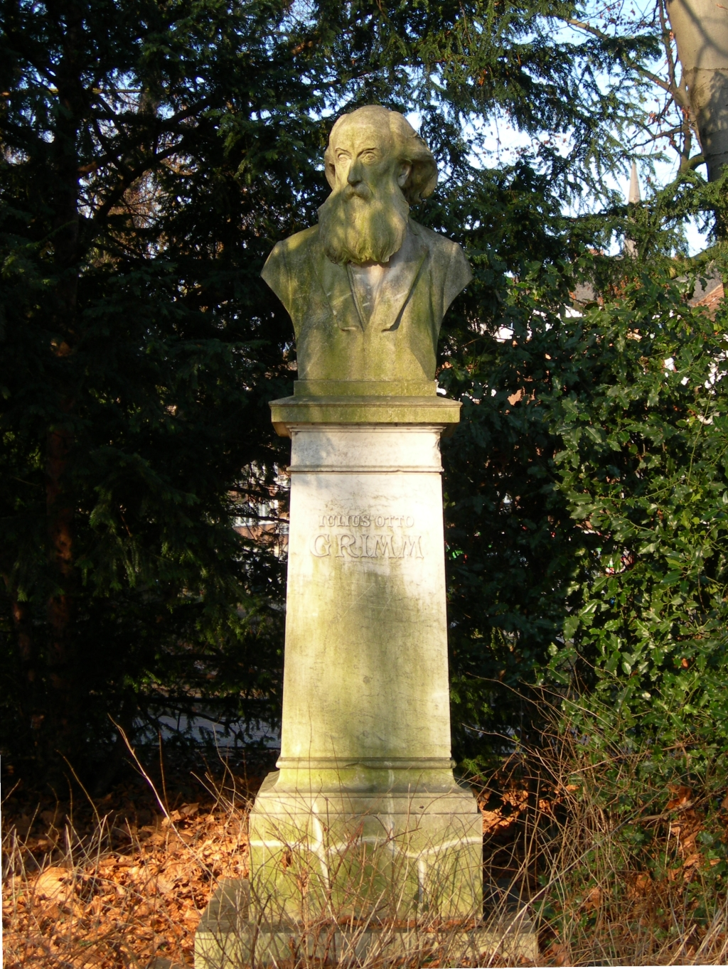 Sculpture of Julius Otto Grimm at Münster (Westphalia), Germany.